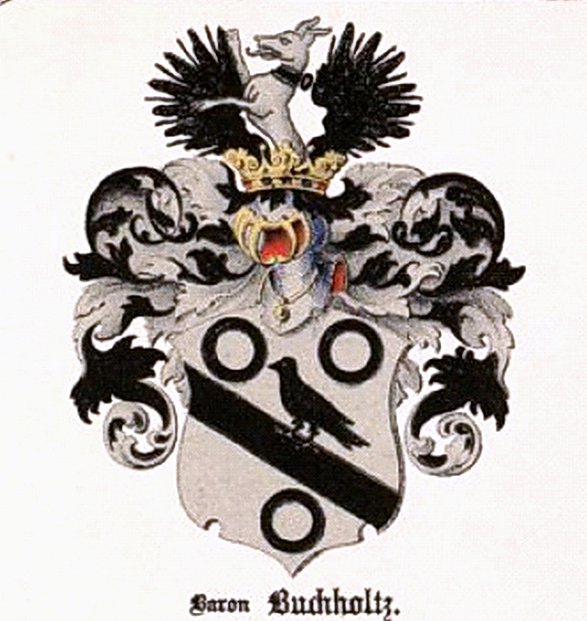 Coat of arms of Baron Buchholtz family